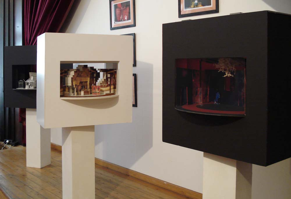 Theatre History and Actor Museum, Miskolc, Hungary